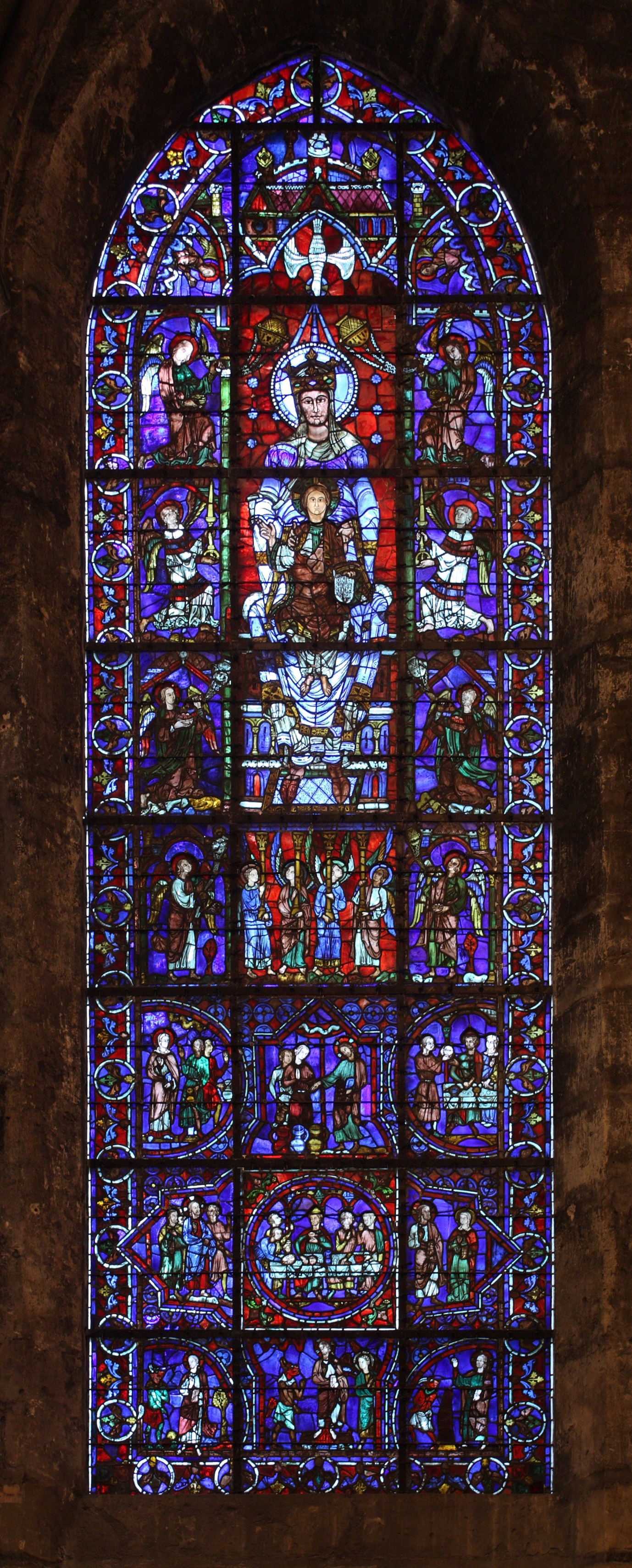 Notre-Dame de la Belle Verrière, Stained glass window in the choir of Chartres cathedral. The lower part depics the Temptation of Christ. The two following parts relate the Marriage at Cana. 12th century (parts with the red background) and 13th century.